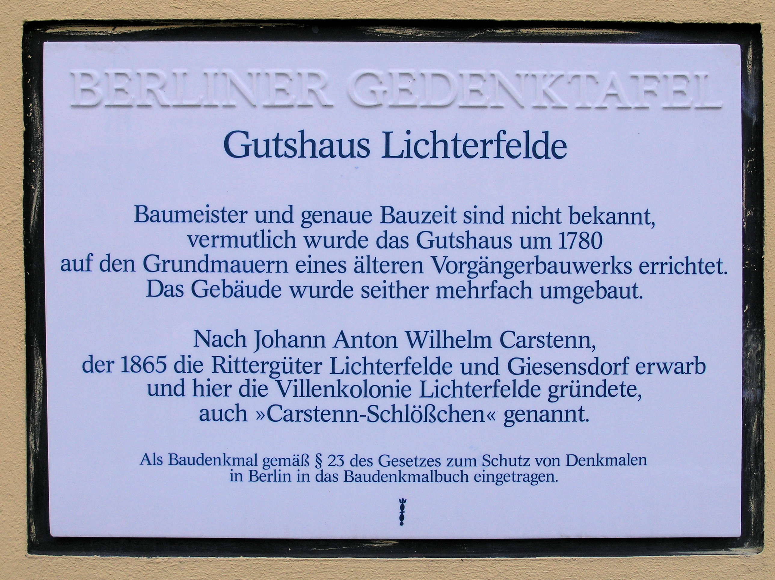 Berlin memorial plaque, Gutshaus Lichterfelde , Hindenburgdamm 28, Berlin-Lichterfelde, Germany Koordinate:52°26′20″N 13°18′59″E / 52.43889°N 13.31639°E